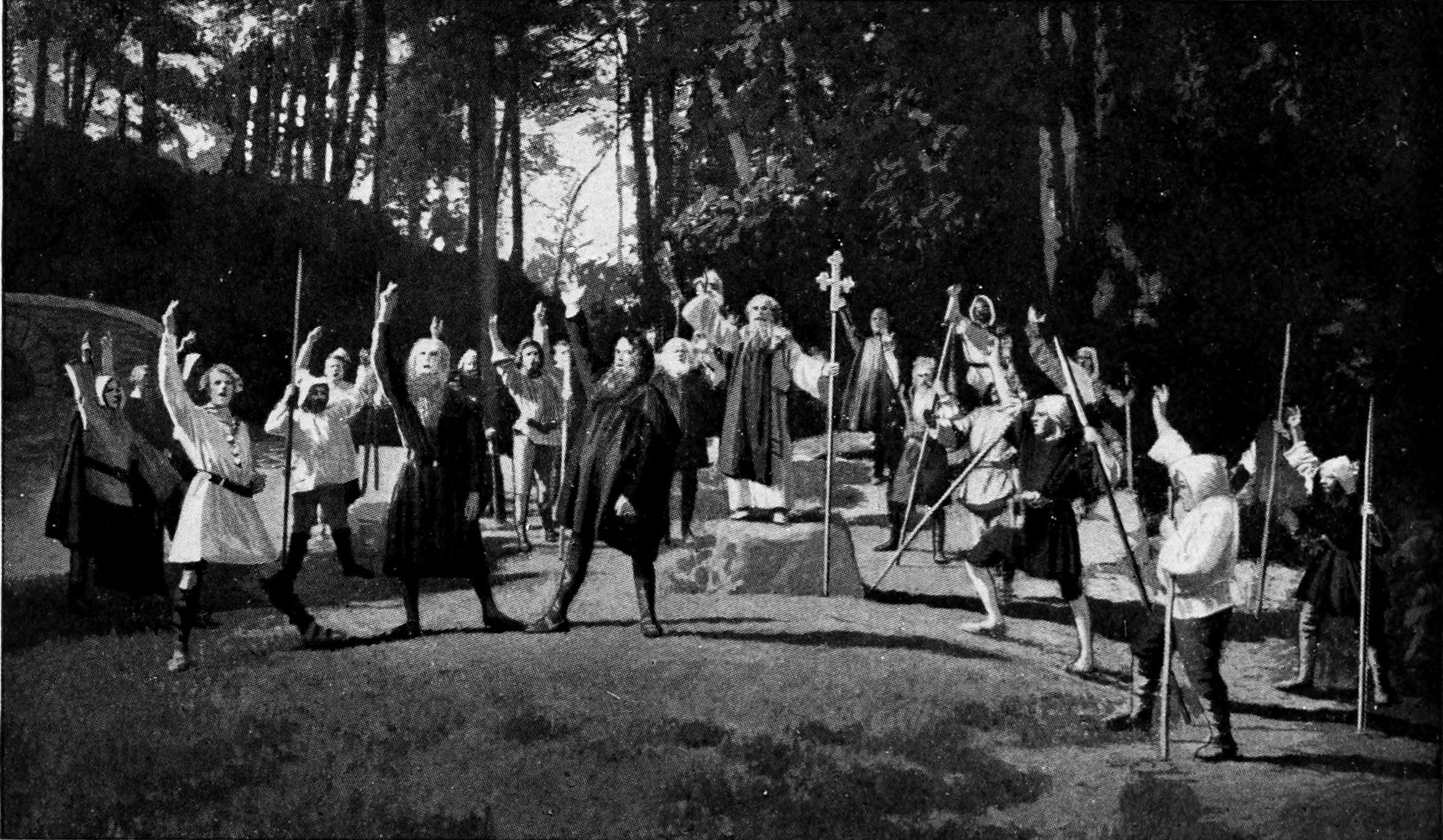 Rossini - Guillaume Tell - The Oath - Al Fresco production in Switzerland Title: The Victrola book of the opera : stories of one hundred and twenty operas with seven-hundred illustrations and descriptions of twelve-hundred Victor opera records Year: 1917 (1910s) Authors: Victor Talking Machine Company Rous, Samuel Holland Subjects: Operas Publisher: Camden, N.J. : Victor Talking Machine Co. Text Appearing Before Image: FIRST ACT SCENE Text Appearing After Image: VICTROLA BOOK OF THE OPERA—ROSSINIS WILLIAM TELL